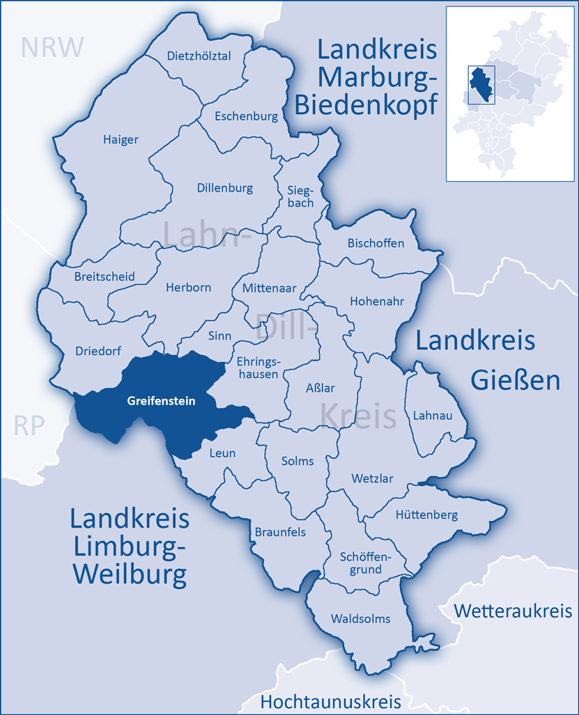 The map shows a district in the area of Lahn-Dill-Kreis